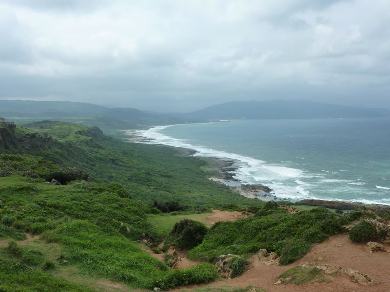 Longpan East Coast, Kenting, Taiwan